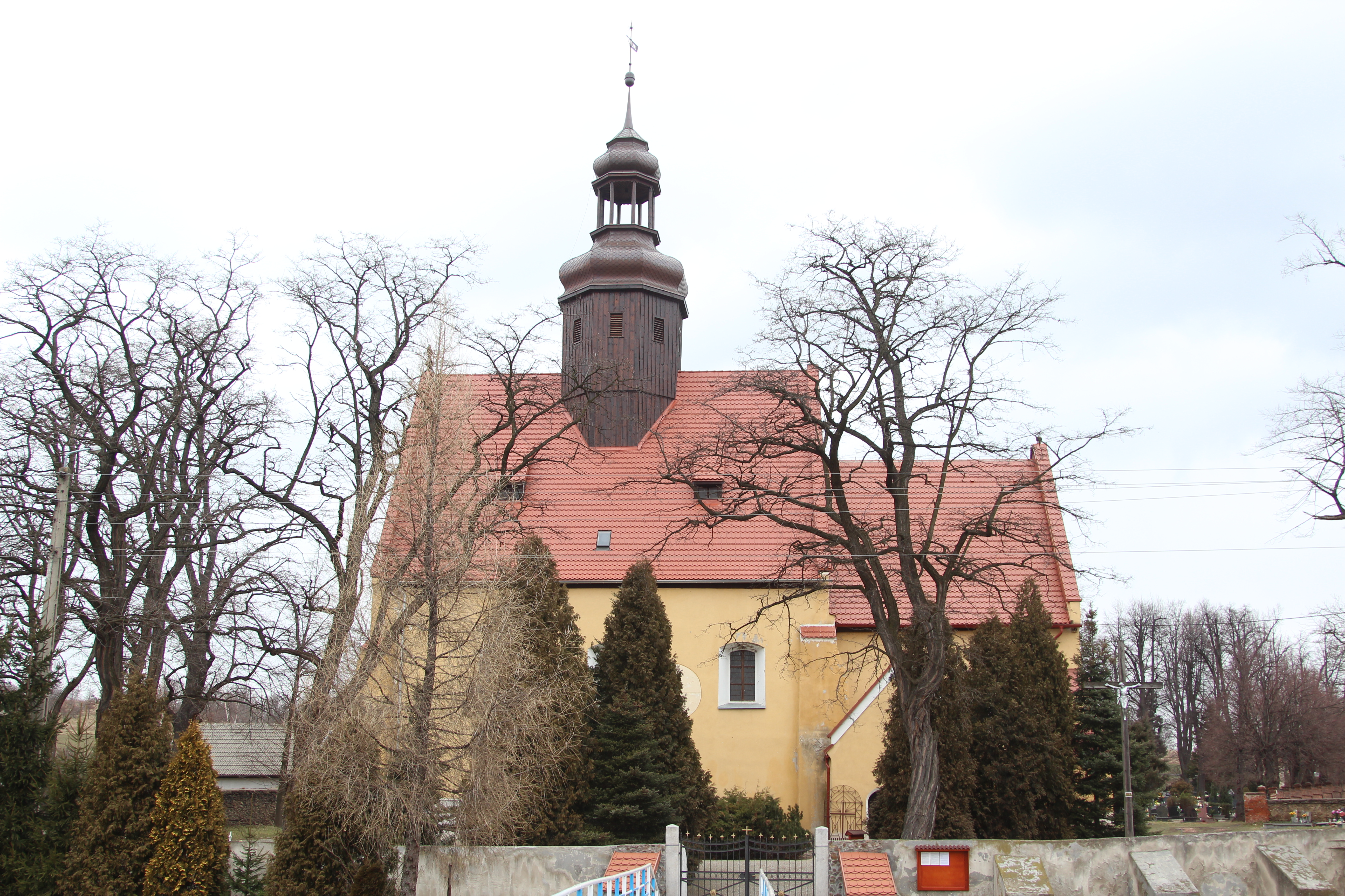 John the Baptist church in Mościsko